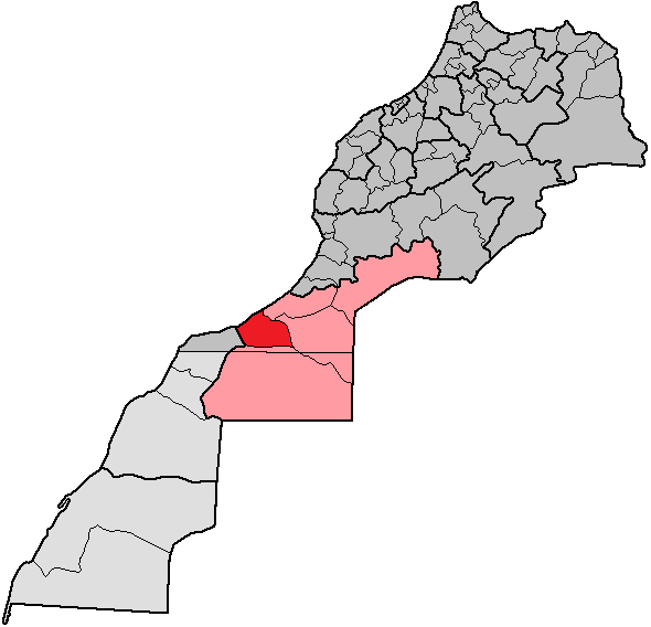 Location of the province Tan-Tan within the region Guelmim-Es Semara, Morocco. In total, Morocco has 16 regions, subdivided into 62 provinces and 13 prefectures.